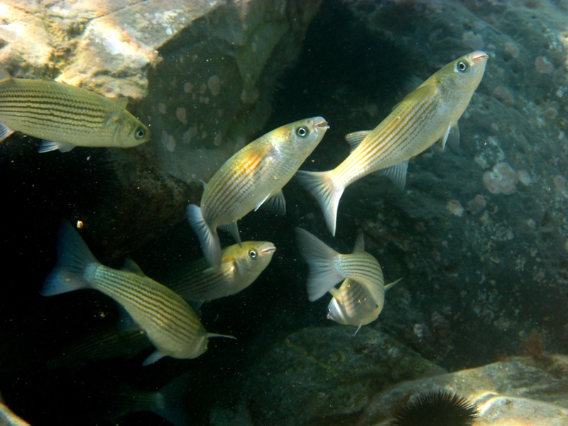 O. labeo photographed in Italy by Alessandro Duci